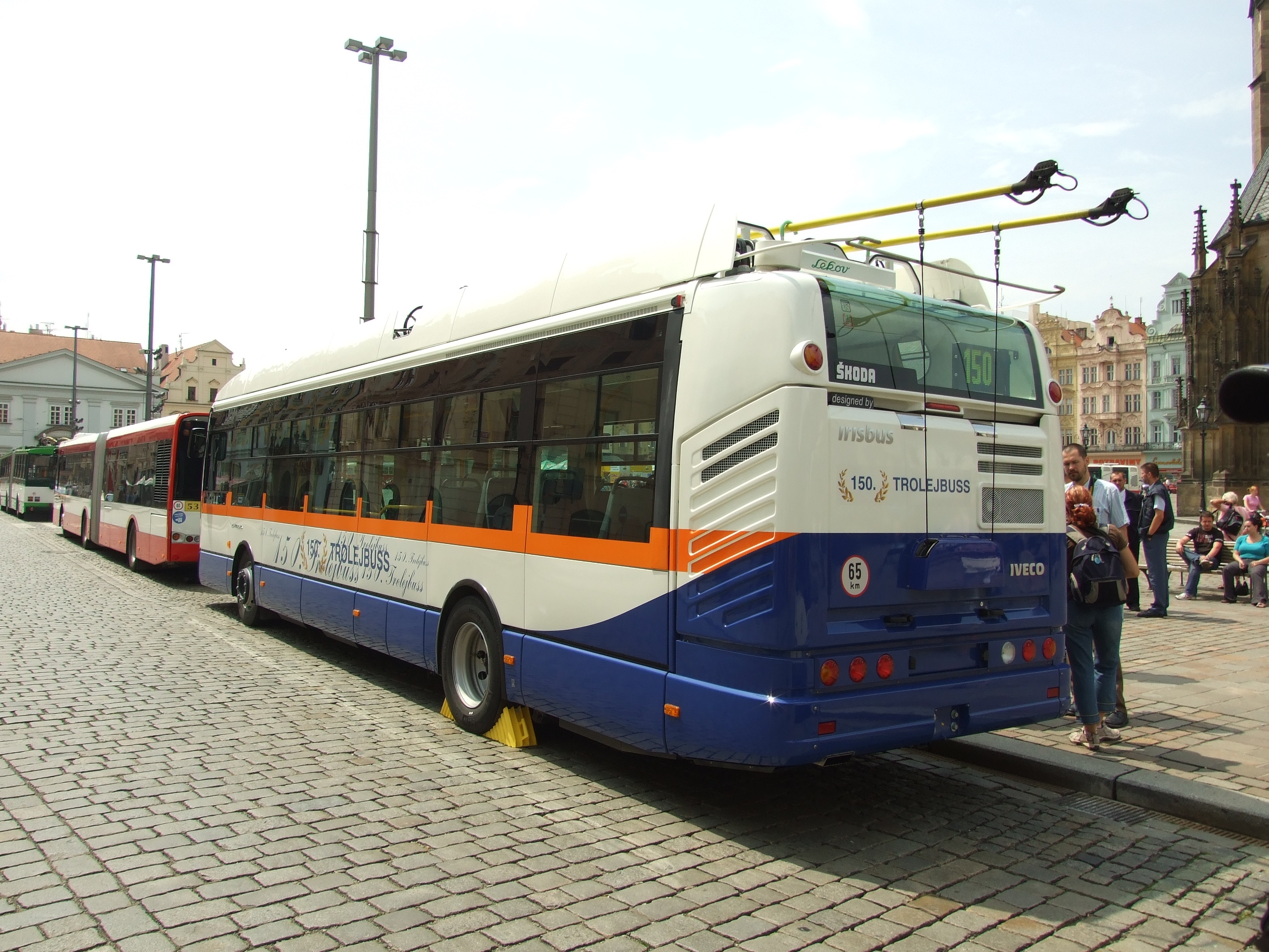 110th anniversary of public transport in Plzeň, Plzeň Region, CZhelp